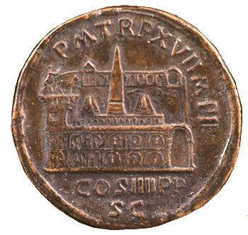 The Circus Maximus The Circus Maximus, Caracalla, sestertius, AD 210-213. The Circus Maximus was the venue for chariot races from Republican times. It first appears on a coin following the completion of a major reconstruction by the emperor Trajan in AD 103. It was also depicted by a later emperor, Caracalla (AD 211-217).